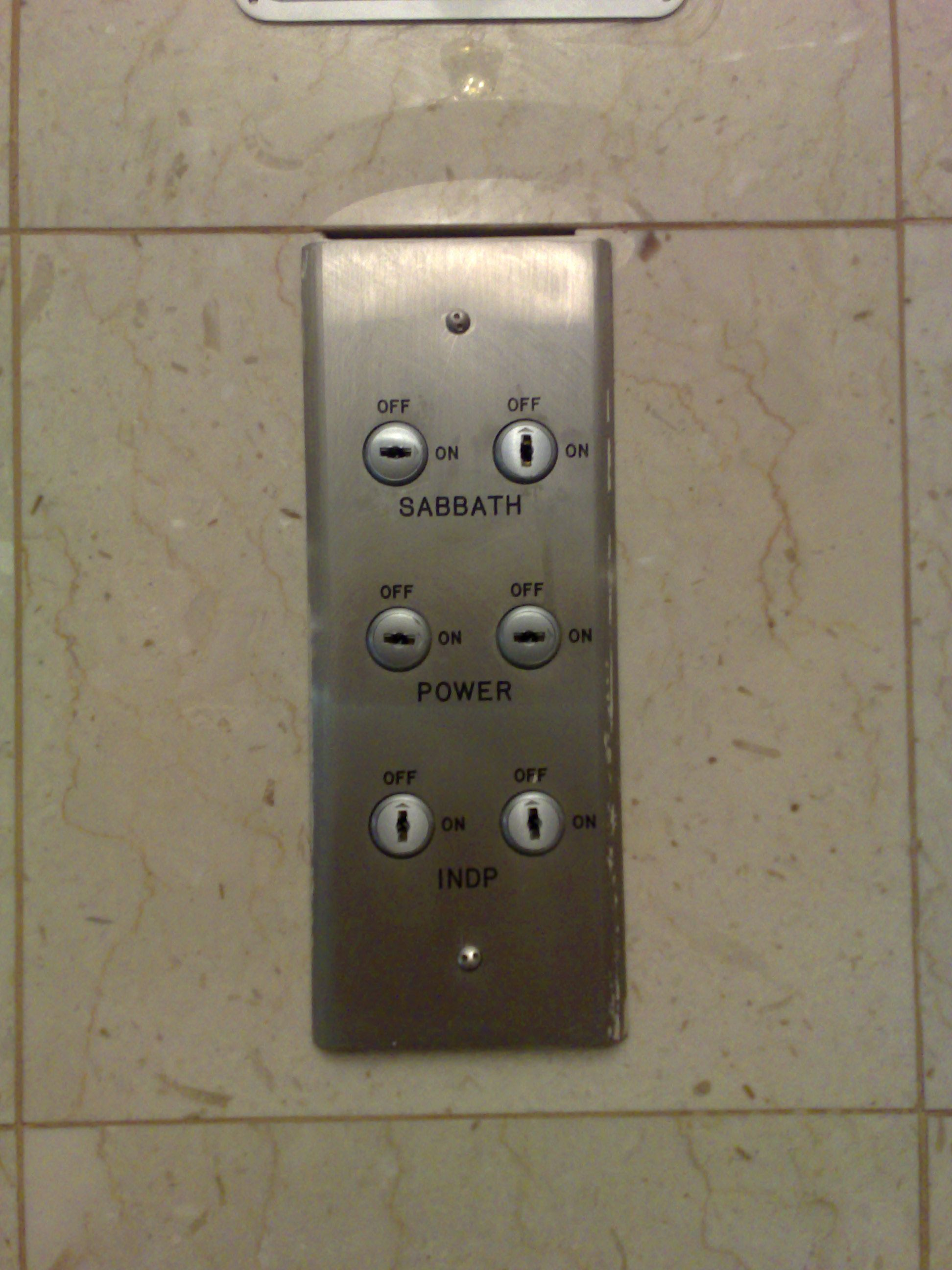 Power key-switches and the call buttons for a Sabbath elevator.